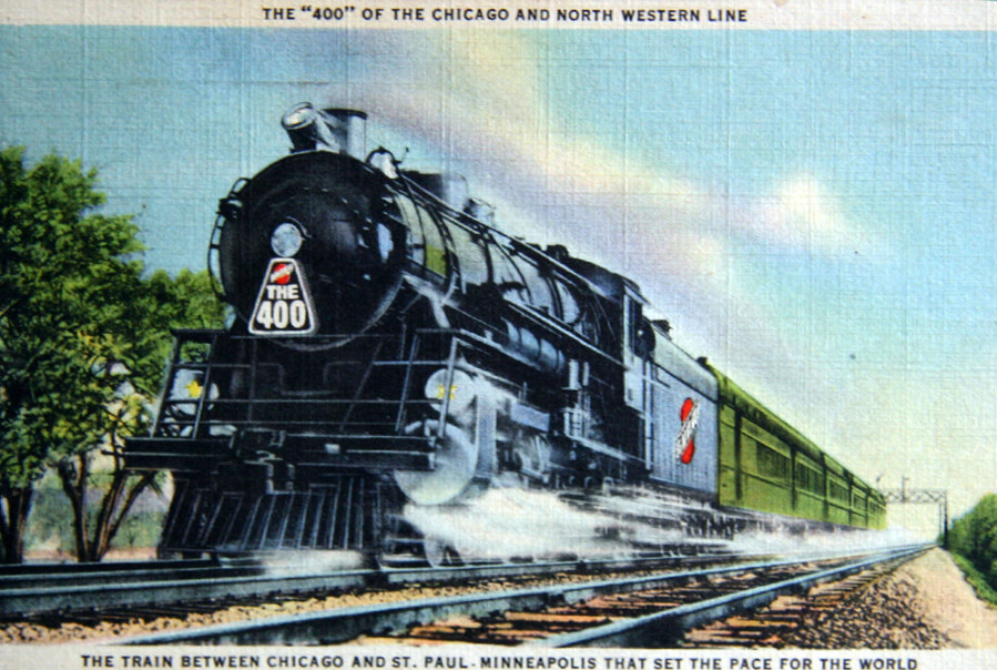 Postcard depiction of The 400 train of the Chicago and North Western Railway. This is the steam powered version, before any streamlining and diesel locomotives.